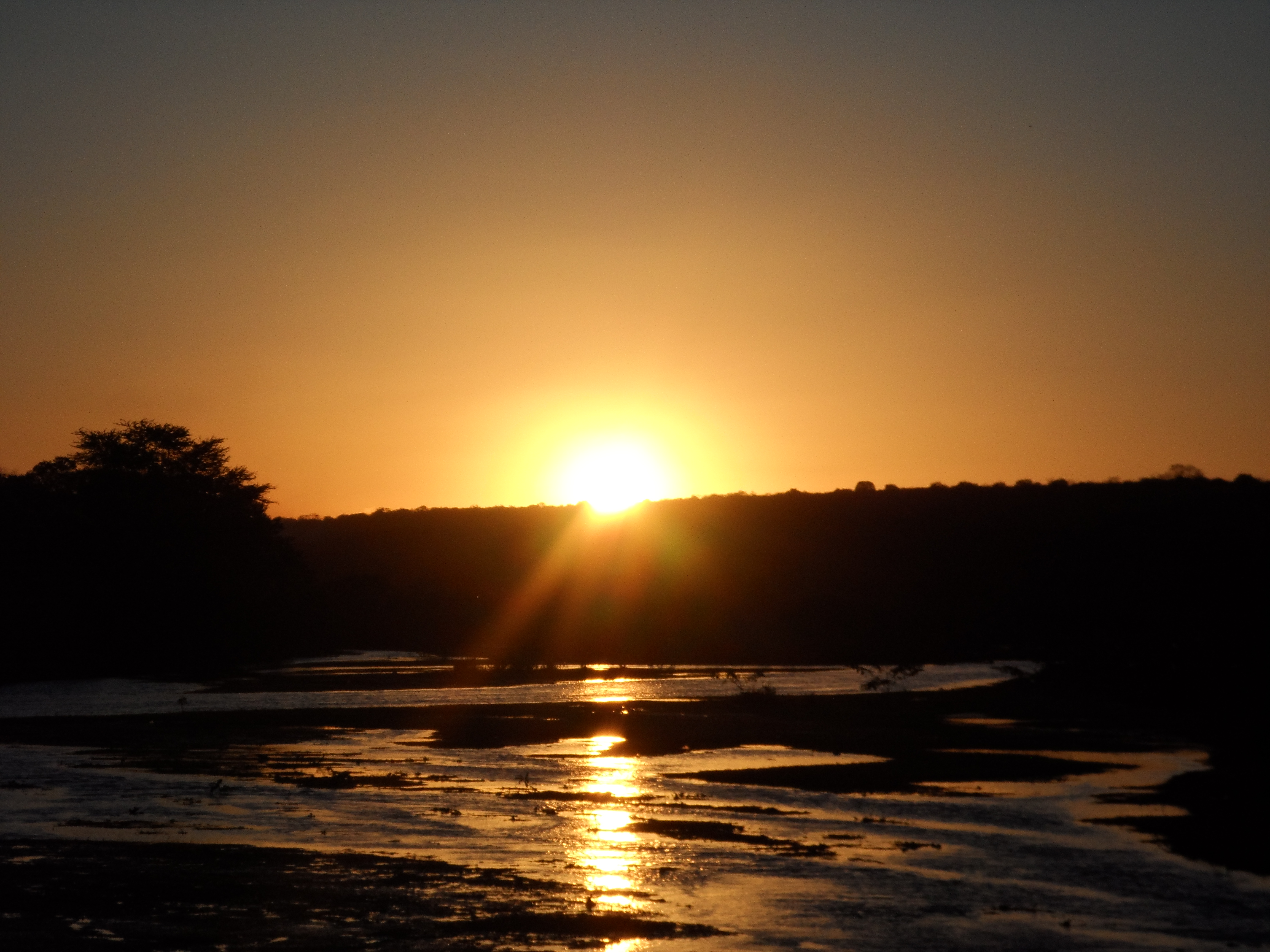 Rio Paraíba